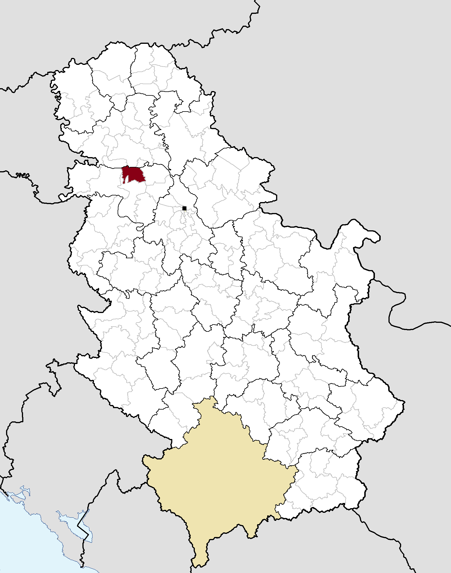 Municipal location in Serbia